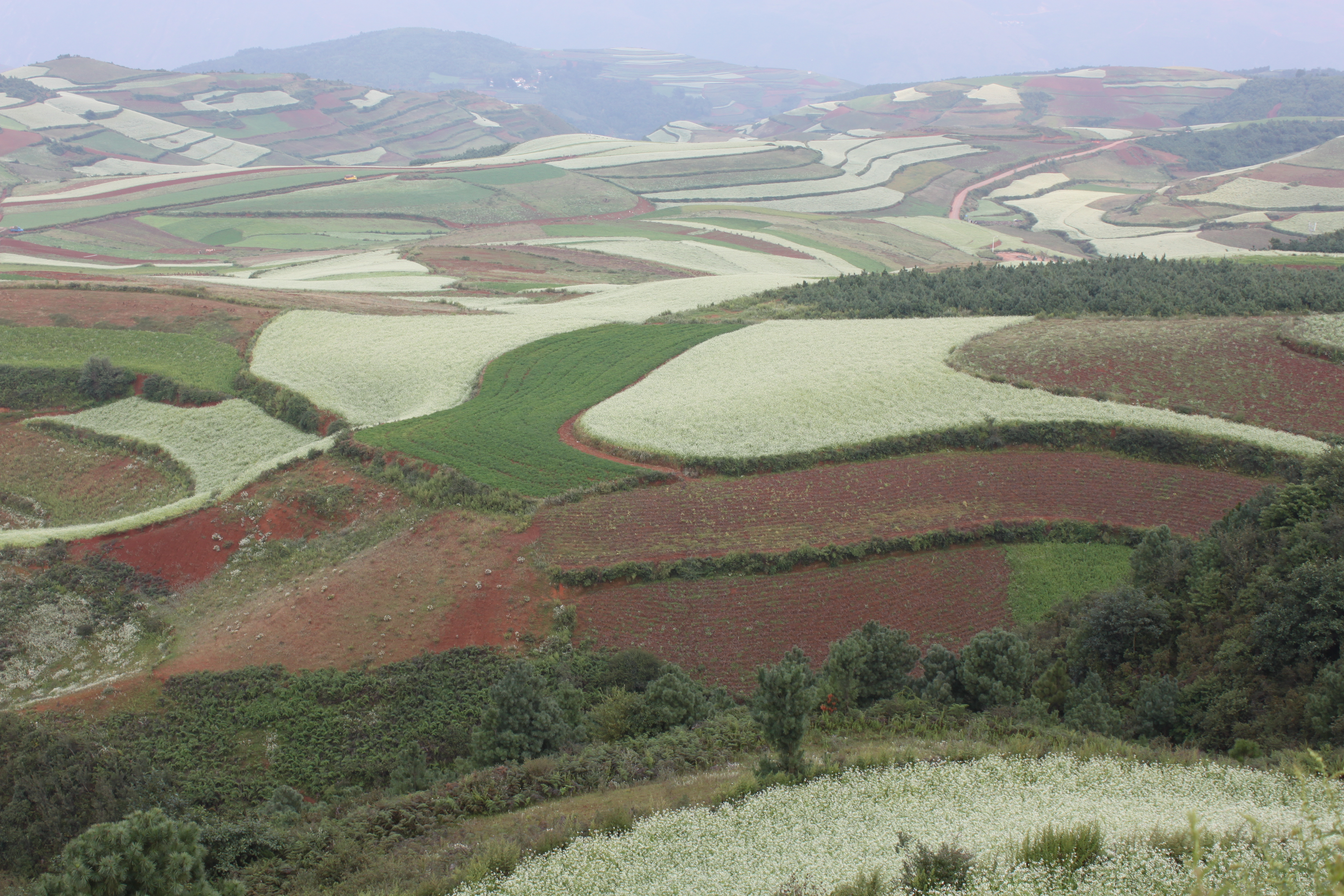 Foto of the red earth at Hongtudi in Dongchuan district